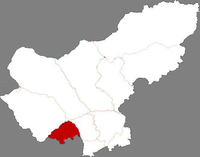 Locator map of Bordered Yellow Banner in Xilingol League, Inner Mongolia, China